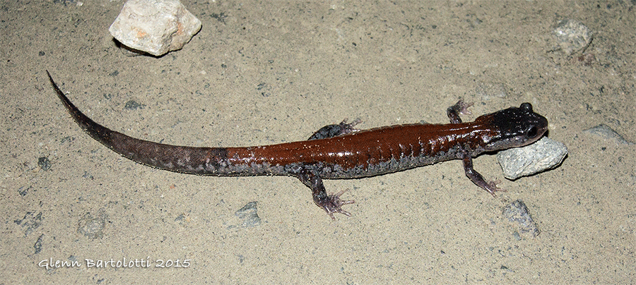 Yonahlossee Salamander Plethodon yonahlossee Found crossing the road NC mountains